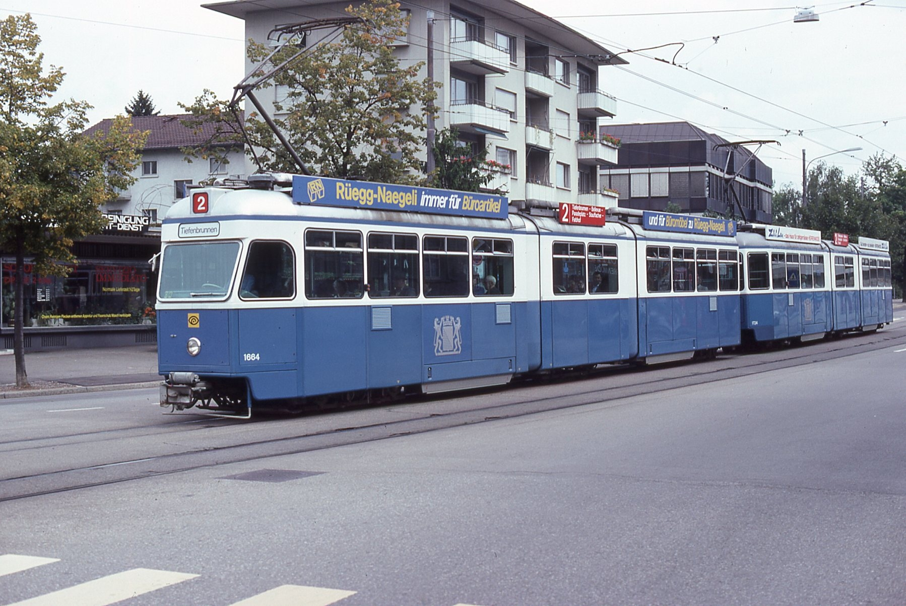 VBZ Be 4/6 1664 with an unidentified classmate in 1976